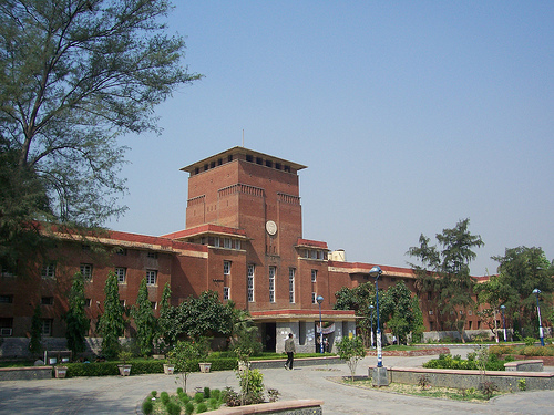 The University of Delhi main building, housed in former Viceregal Lodge (1912–1931)